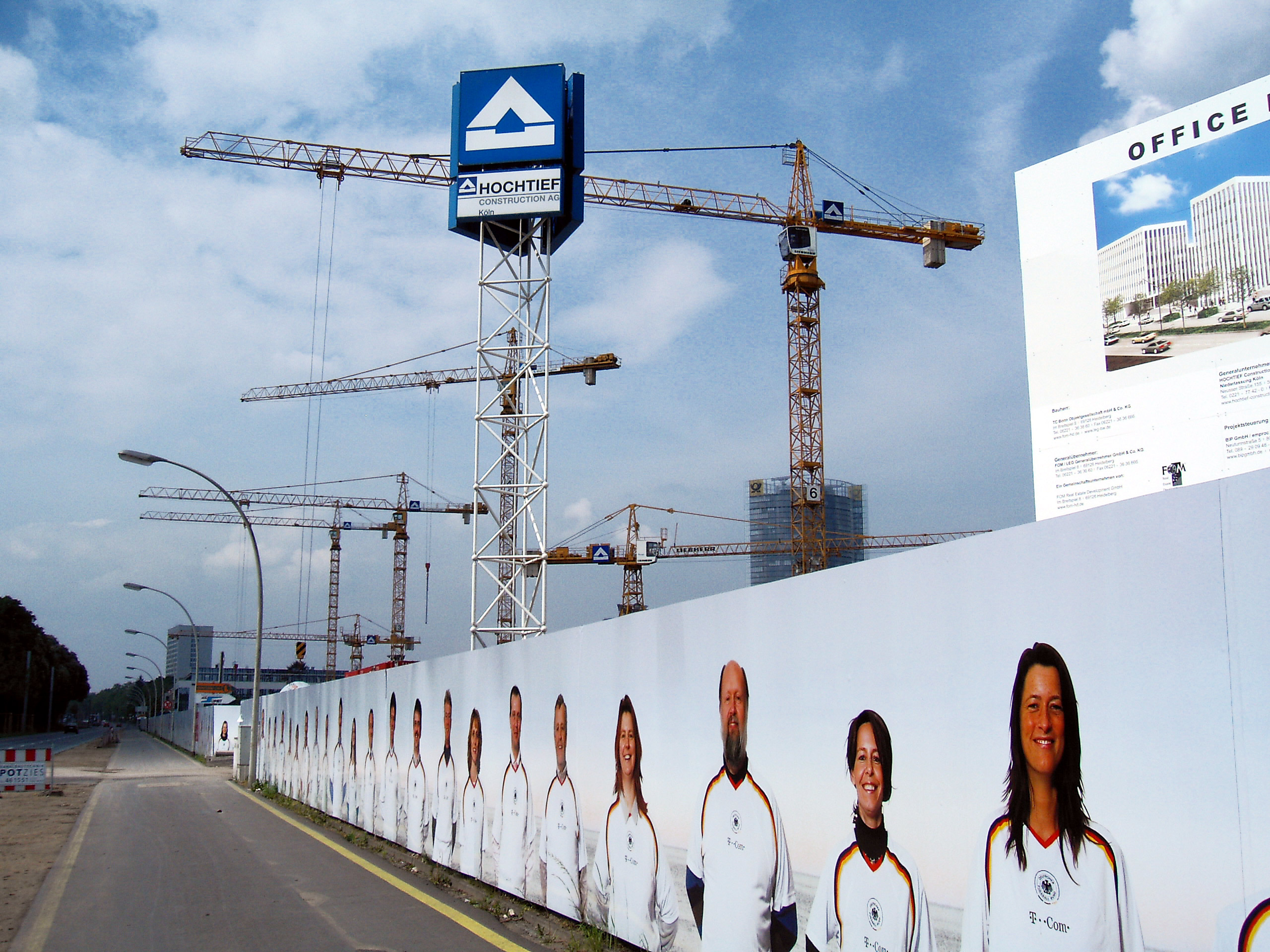 Construction works for the extension of the Headquarters of the Deutsche Telekom AG in the Bonner Federal Quarter.